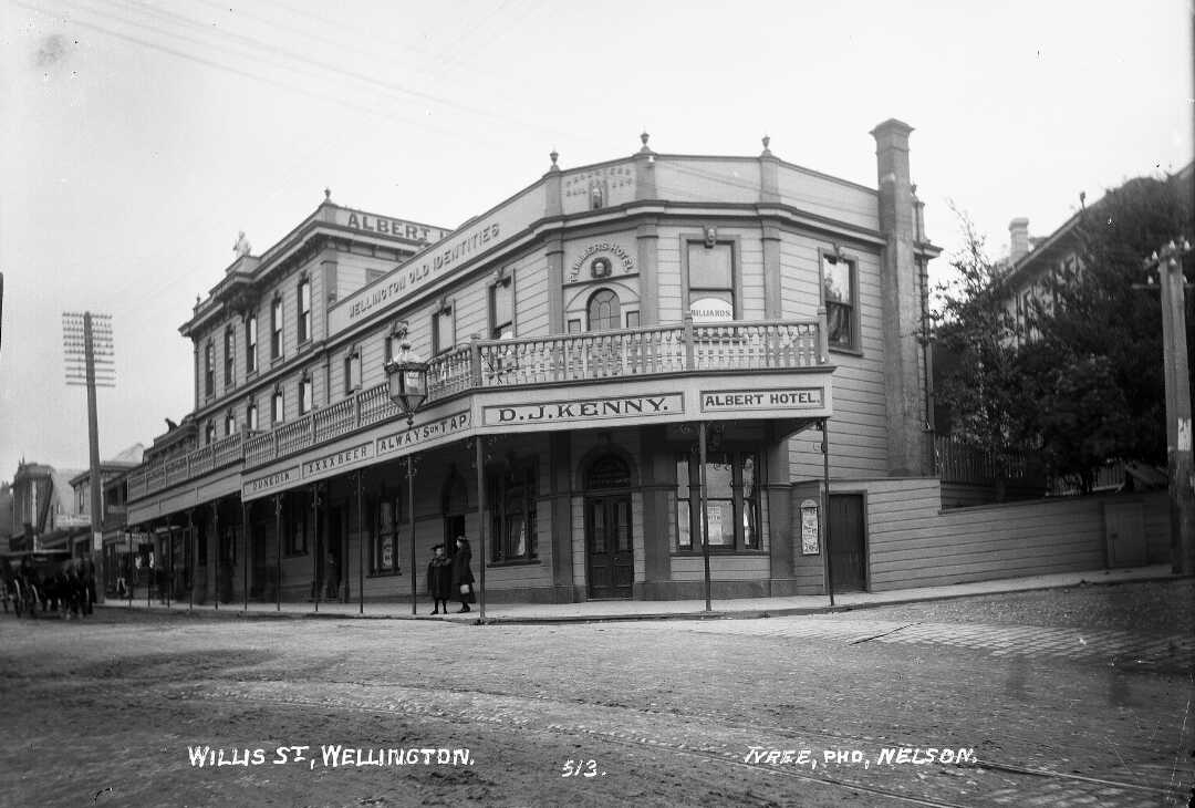 "Old Identities" Albert Hotel, Wellington, New Zealand circa 1900"This building was erected and dedicated to the old identities by John Plimmer in 1879. It was demolished in 1929. Some of the sculptured heads are now held at Te Papa." "Each upper window is adorned with a sculptured head of an old identity. The statue on the skyline to the left is of Edward Gibbon Wakefield. Photograph taken by the Tyree Brothers circa 1900."